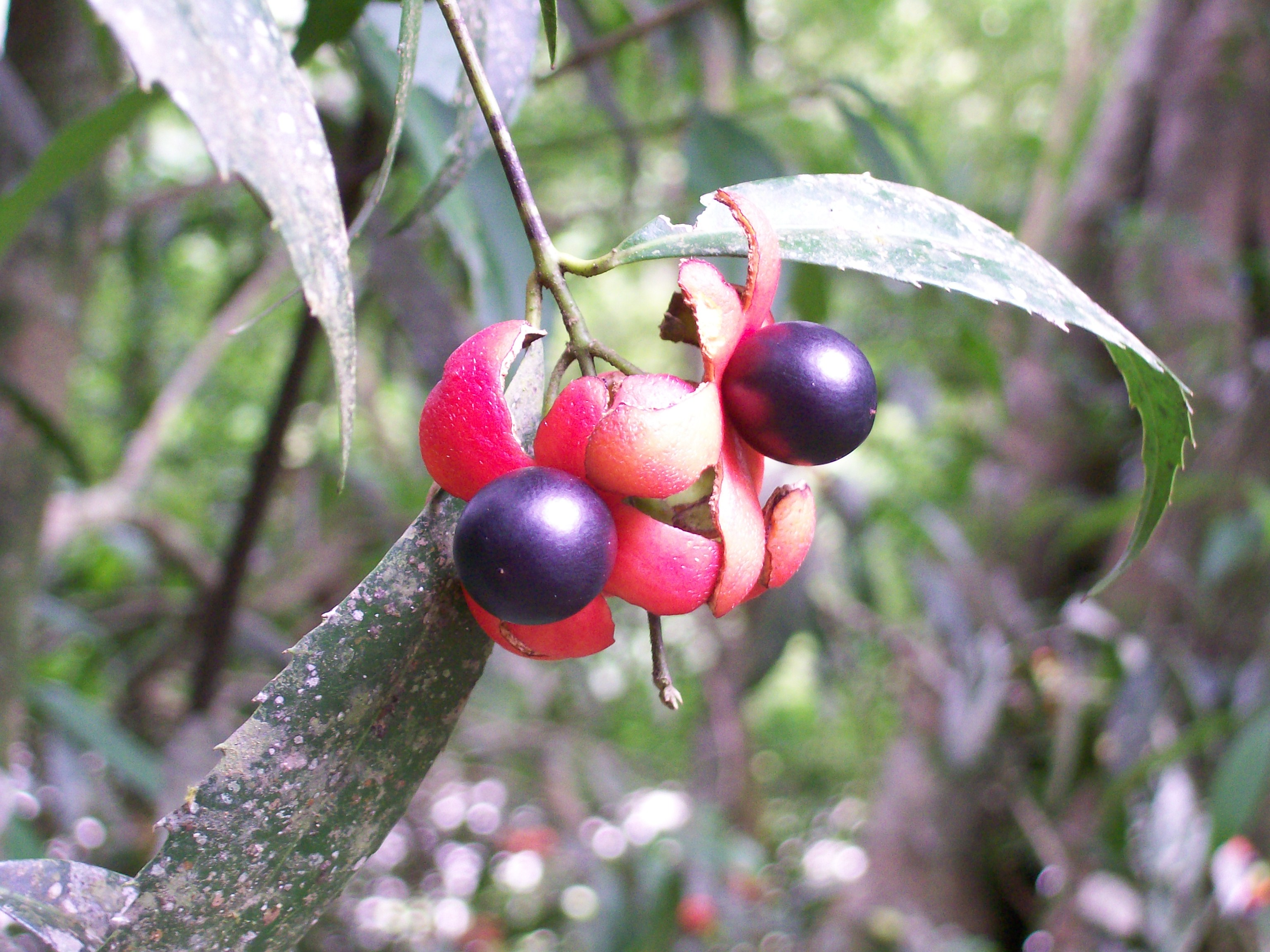 Fruit of Hennecartia omphalandra J. Poiss, Monimiaceae. Plant growing at the margin of a river.